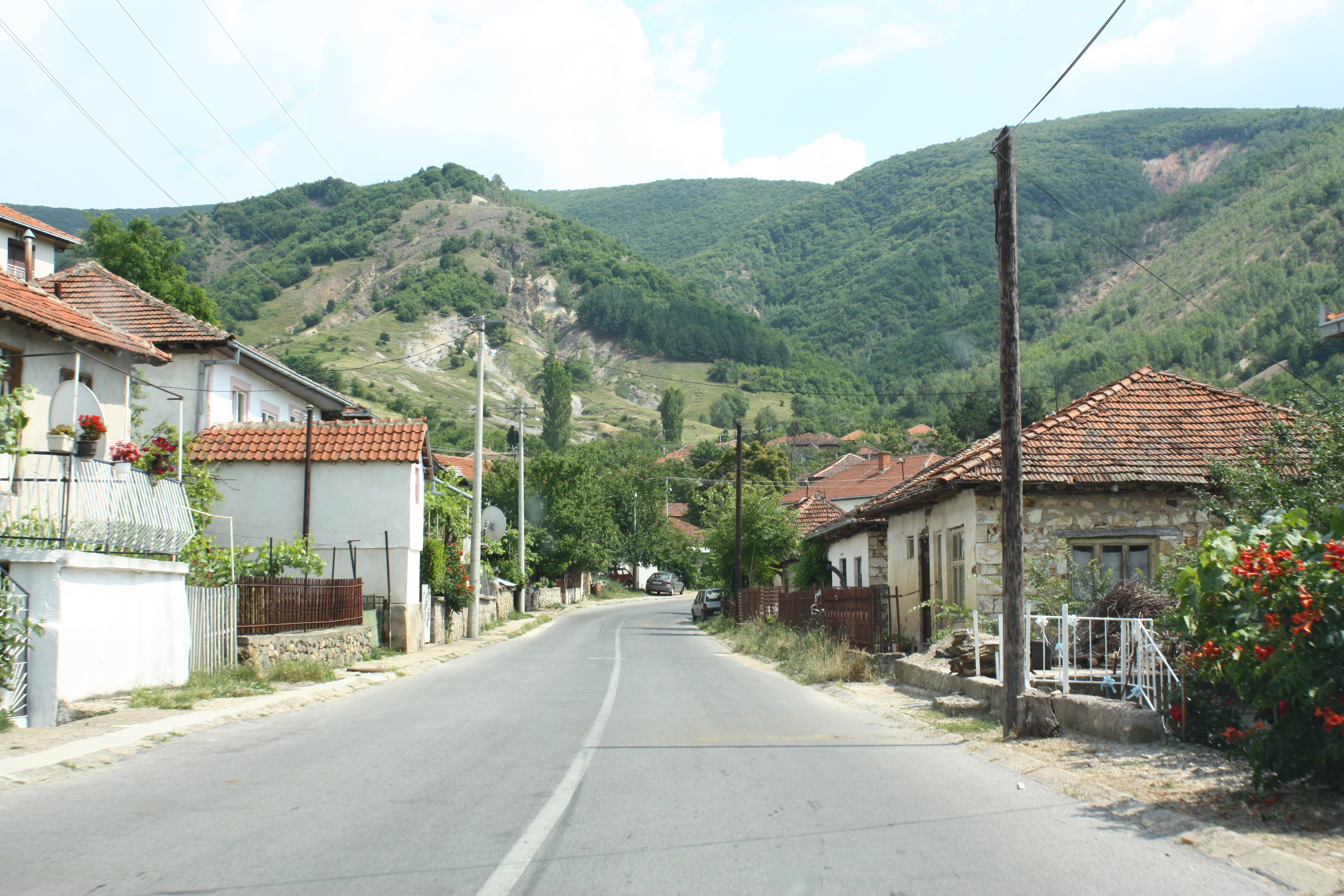 Šlegovo, Macedonia